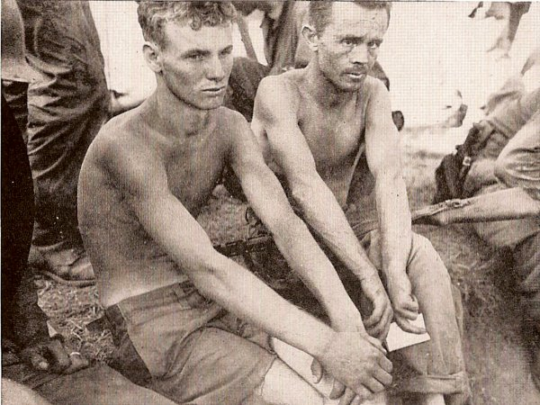 Two Survivors of the Hill 303 massacre, during the Korean War, 1950.